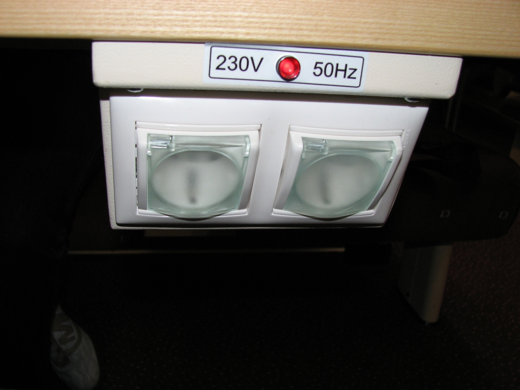 MÁV IC3 passanger coaches